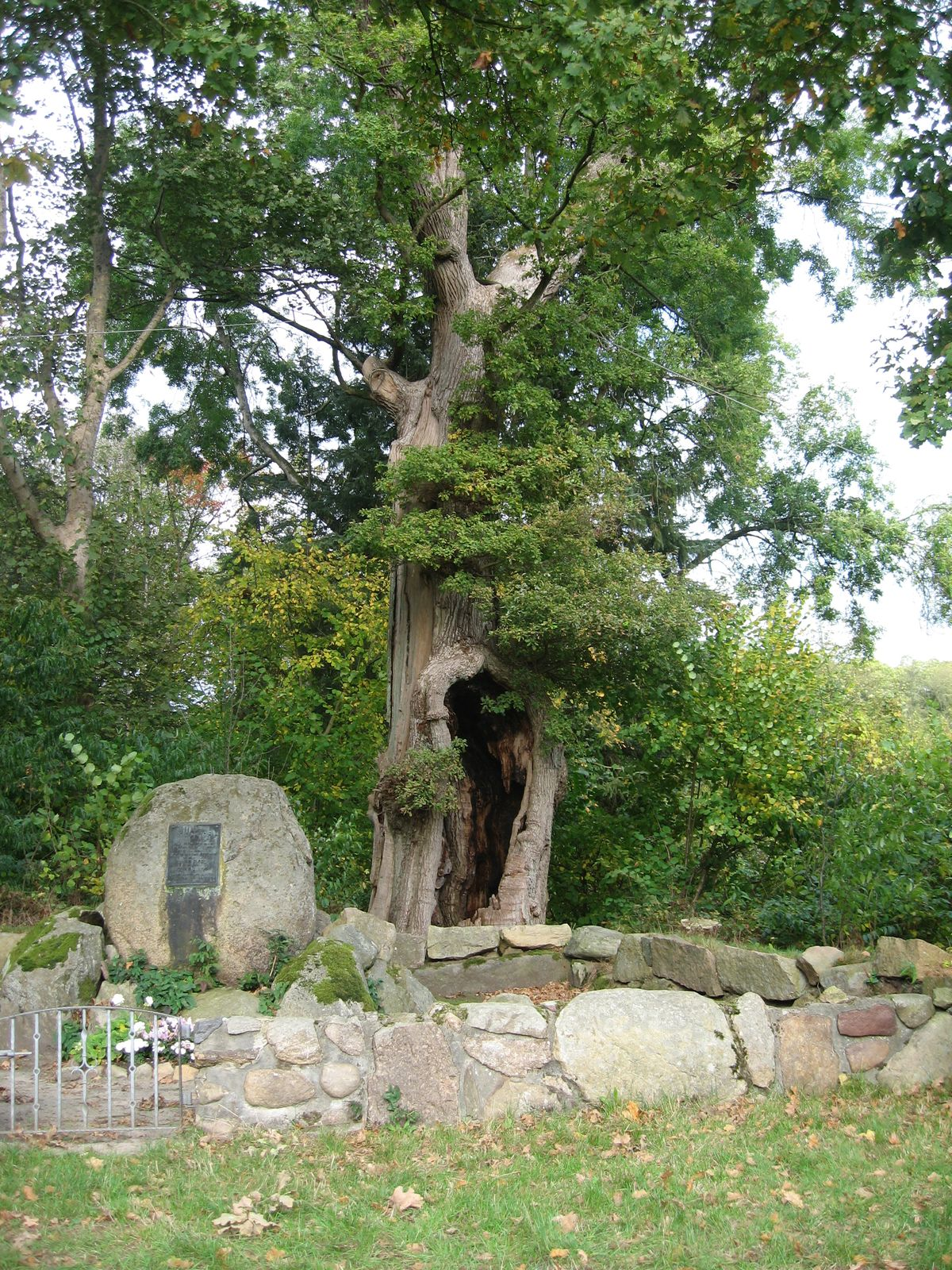 Millennial oak in Bötersheim